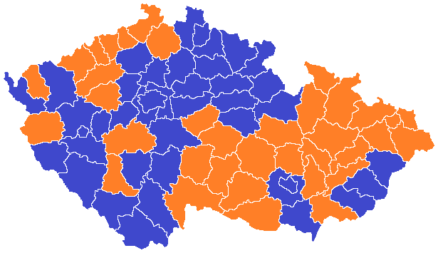 Elections to the Chamber of Deputies in 1996 - winning party by districts (blue ODS, orange ČSSD)